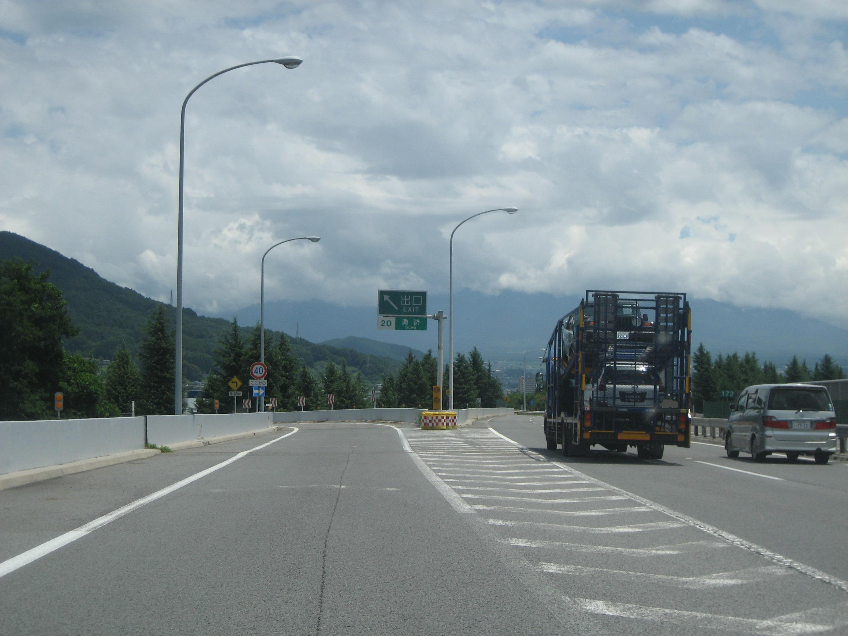 Chuo Expressway Suwa Interchange exit